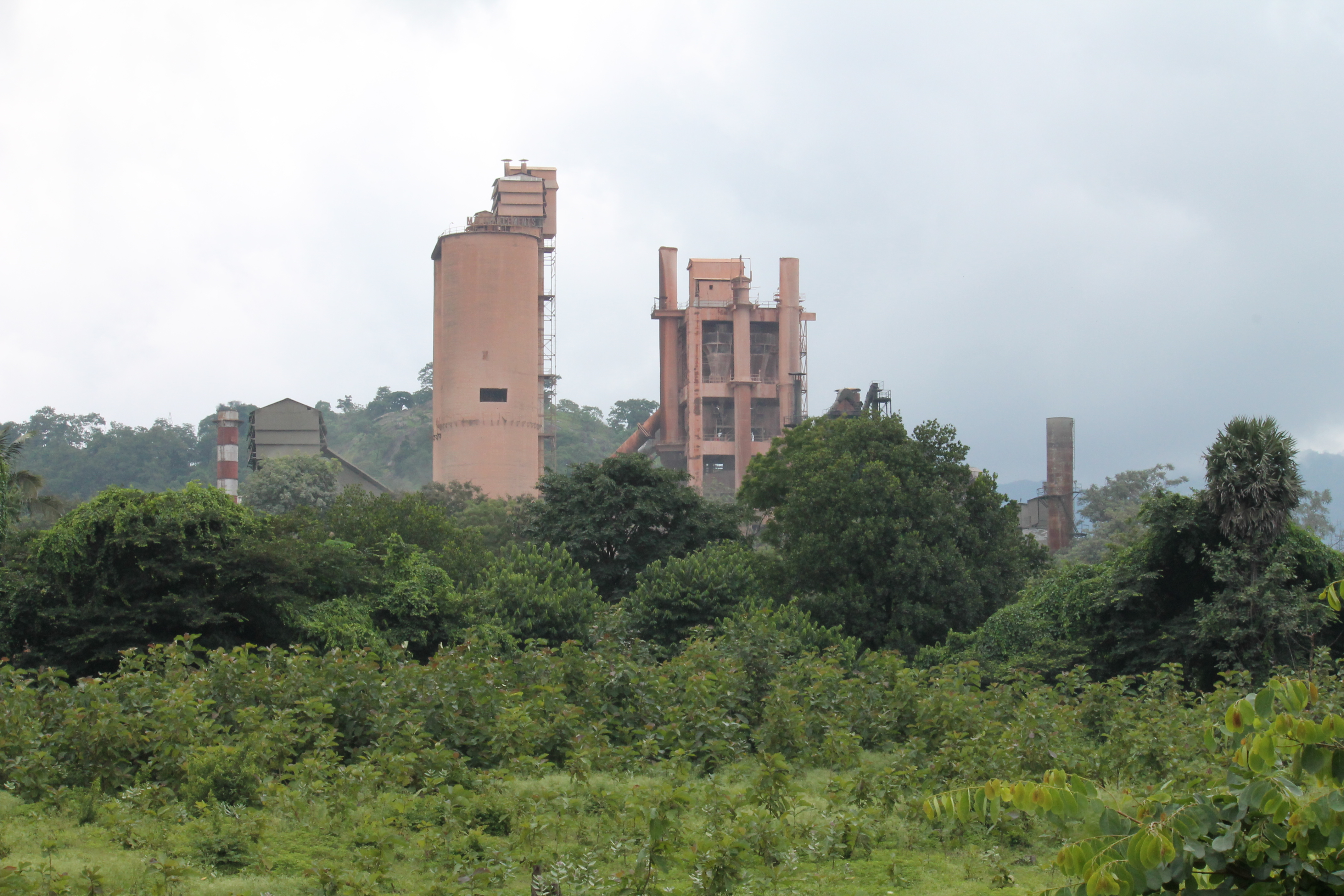 പാലക്കാട്ടുള്ള മലബാർ സിമന്റ് ഫാക്ടറിയുടെ ഒരു ദൃശ്യം (A view of the Malabar Cement Factory, Palakkad, Kerala, India).